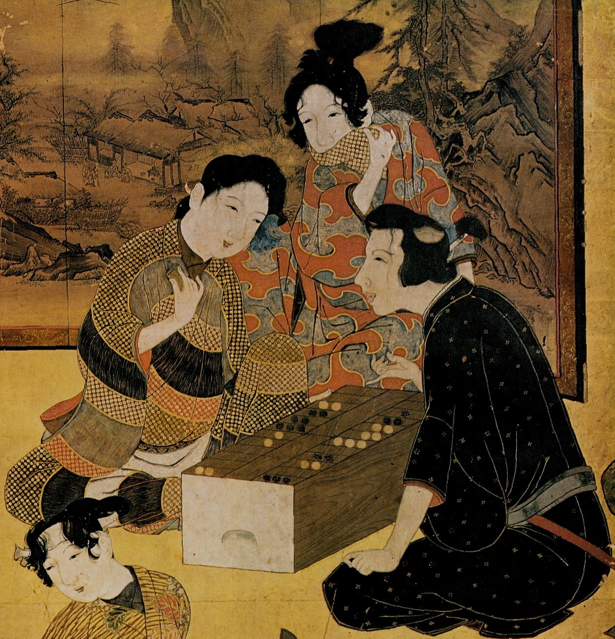 Hikone Screen detail showing man and woman playing ban-sugoroku